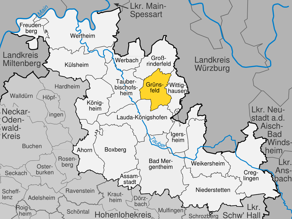 position of Grünsfeld within the Main-Tauber-Kreis, Baden-Württemberg, Germany